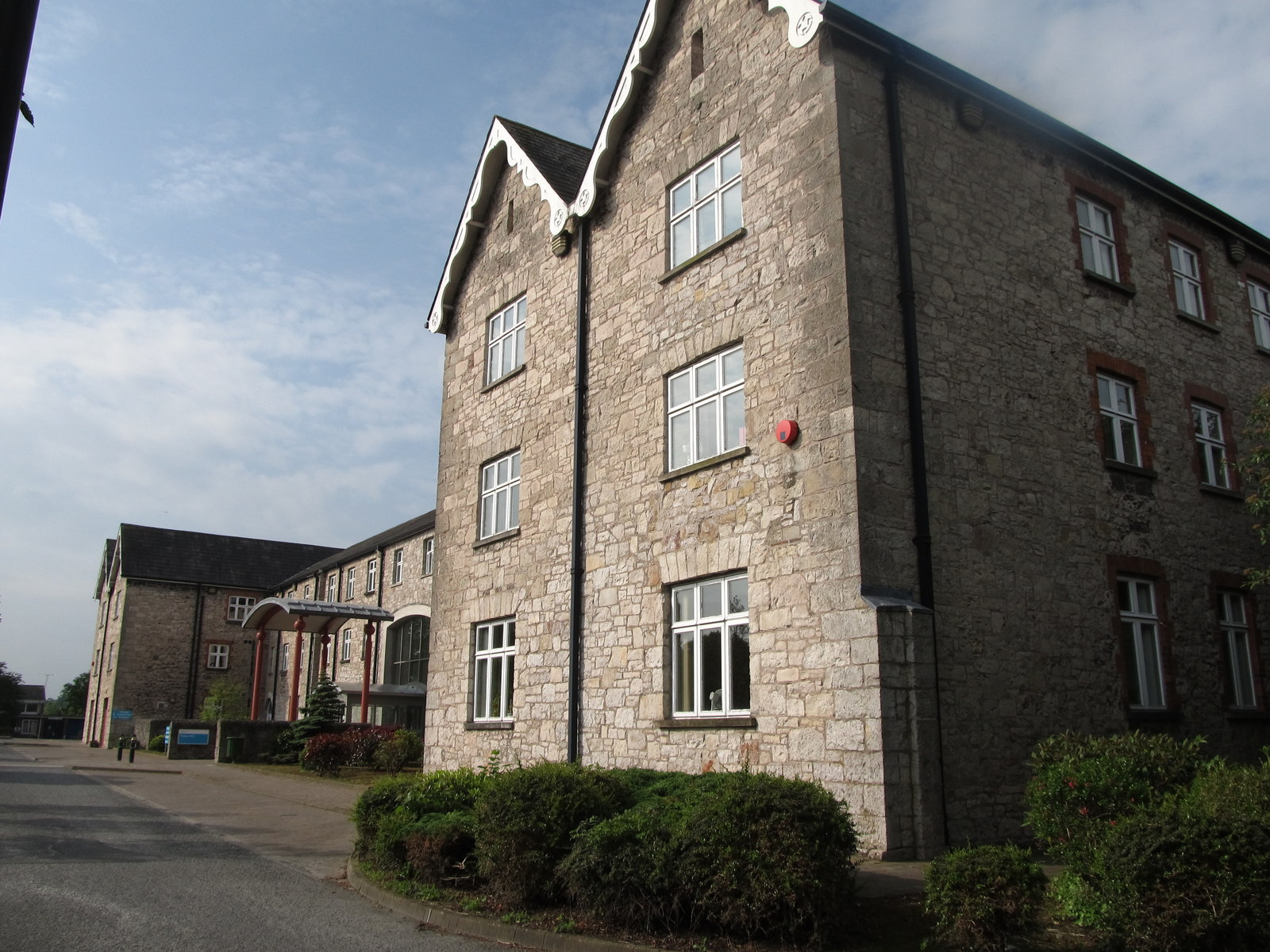 Armagh Community Hospital, Towerhill